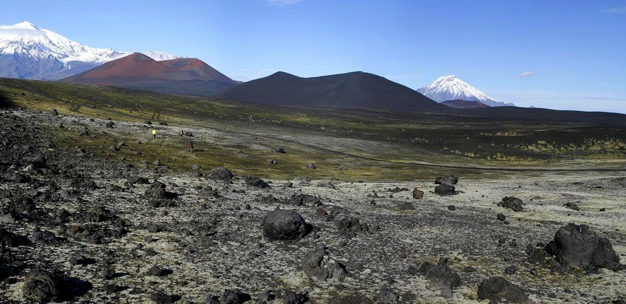 Северный Прорыв